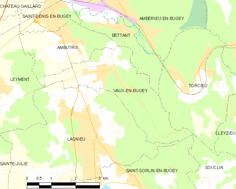 Map of French commune: Vaux-en-Bugey Map commune FR insee code 01431.png